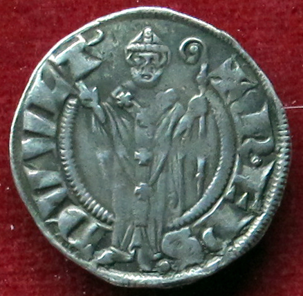 Coin exhibition in Prato (Italy), 2012